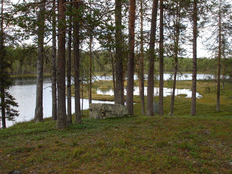 Lake Kroktjärnen in Malå, Sweden, is located in a nature reserve. The lake is surrounded by old forest with old Sami cultural remains.